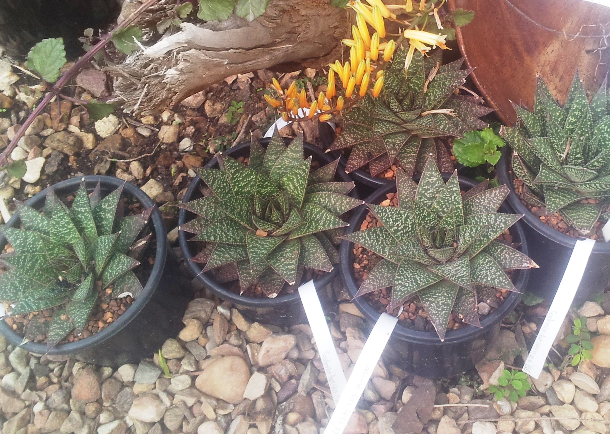 Gasteraloe Dark Spike